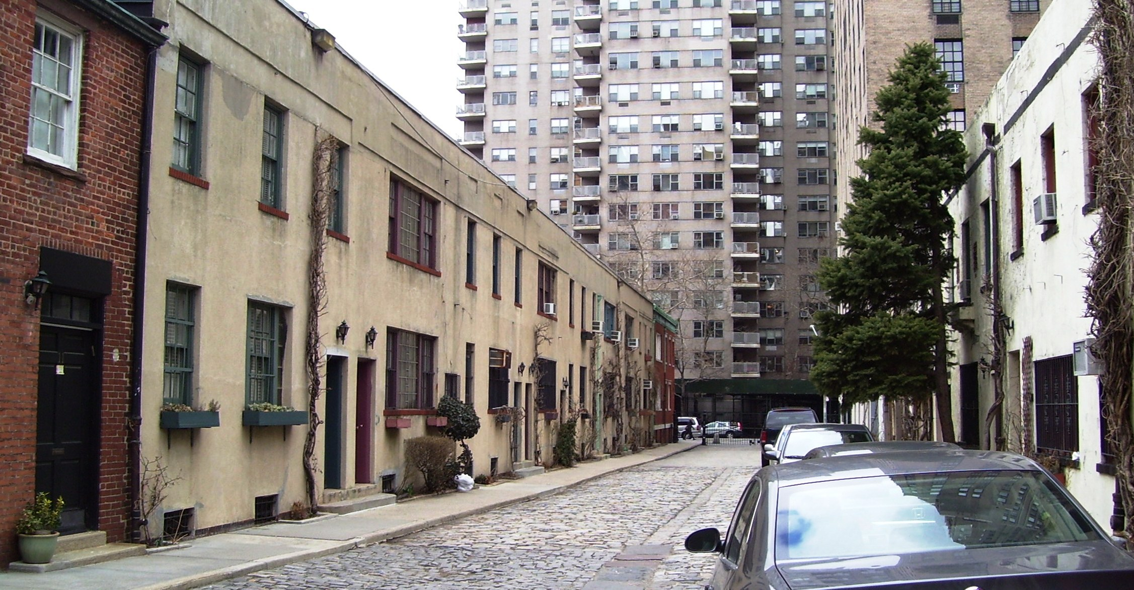 Washington Mews runs between University Place and Fifth Avenue, in the block between Washington Square North and East 8th Street in the Greenwich Village neighborhood of Manhattan, New York City. It is not an official NYC street, but a private way. The north side consists of 19th-century stables which were constructed for the use of the residents of the area, and were converted for other uses in 1916 by Maynicke & Franke. The south side buildings, many of them stuccoed, were put up in 1939. Some of the buildings are used by NYU for their Irish, French and German houses as well as the Institute of French Studies. Wahsington Mews is located within the Grenwich Village Hitsoric District. (Sources: AIA Guide to NYC (4th ed.), NYU Campus map) This view looks west, with the north (uptown) buildings on the right and the south (downtown) buildings on the left.